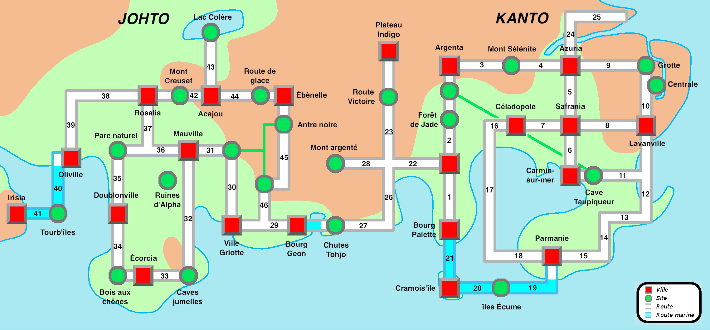 Map of the videogames Pokémon Gold & Silver world. Drawn from File:Tojoh blank.png published in the public domain by Kyoww.